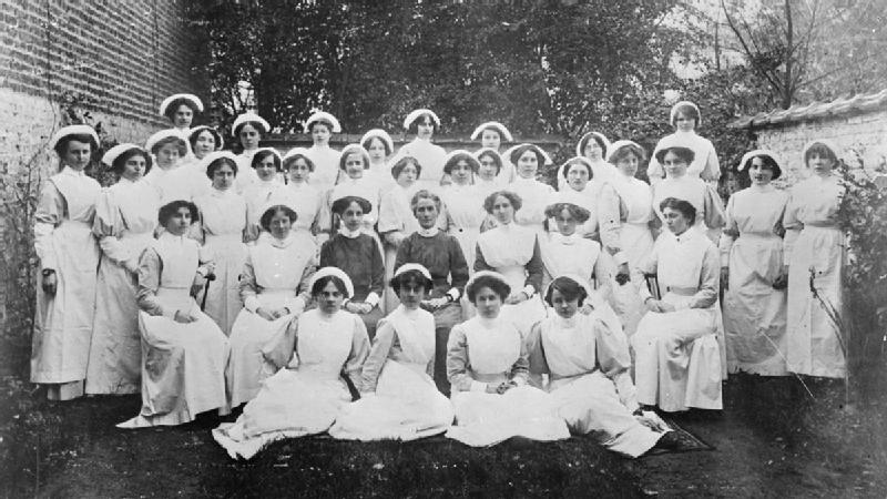 Nurse Edith Cavell 1865-1915 A group photograph showing Nurse Edith Cavell (seated centre) with a group of her multinational student nurses whom she trained in Brussels. They are sitting in a garden, presumably the garden of the training hospital in Brussels.